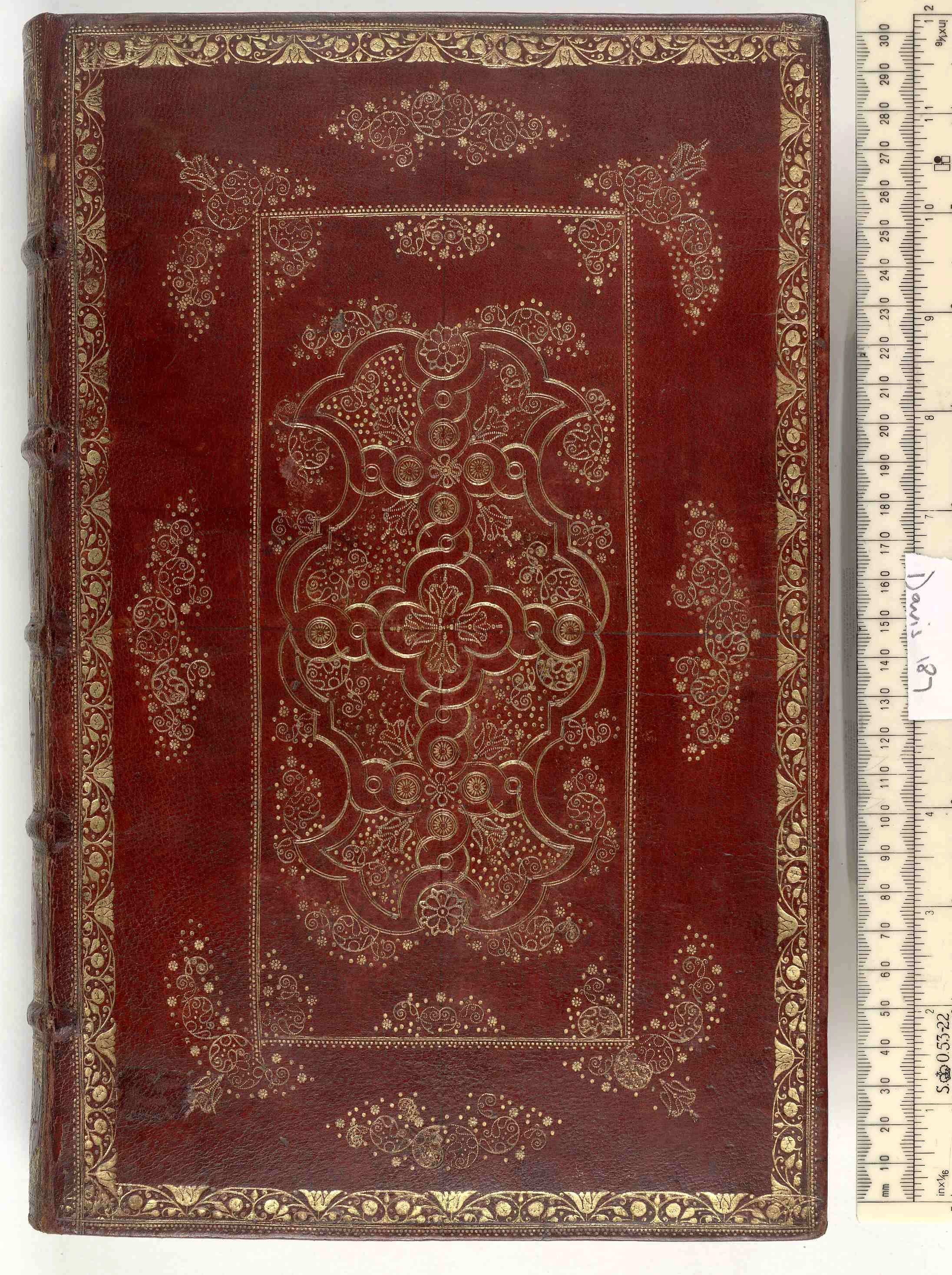 Style: Panel design|Pointille (comprising dots); Caption: Upper cover; Colour: Red; Edge: Unspecified